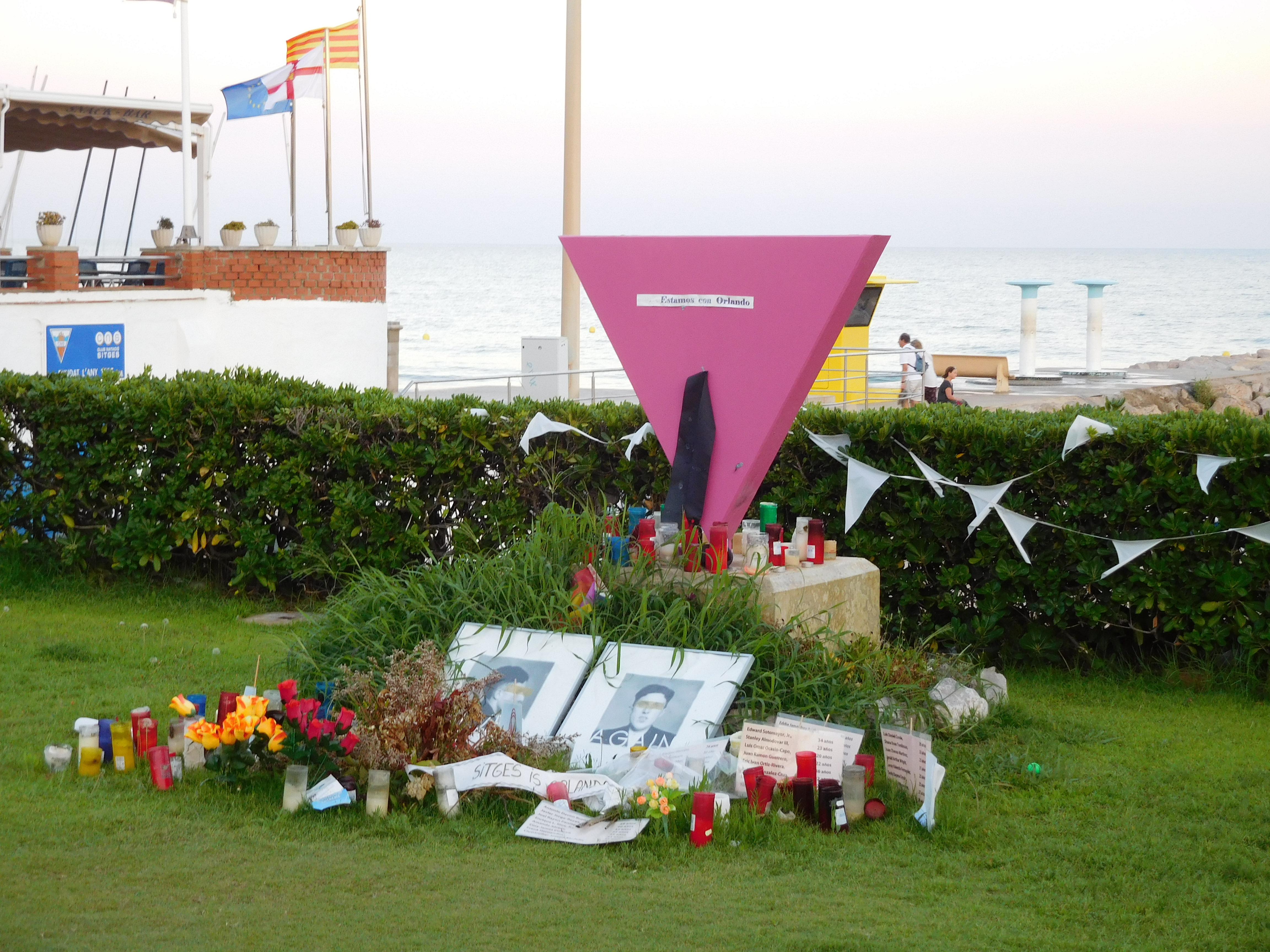 July 2016.